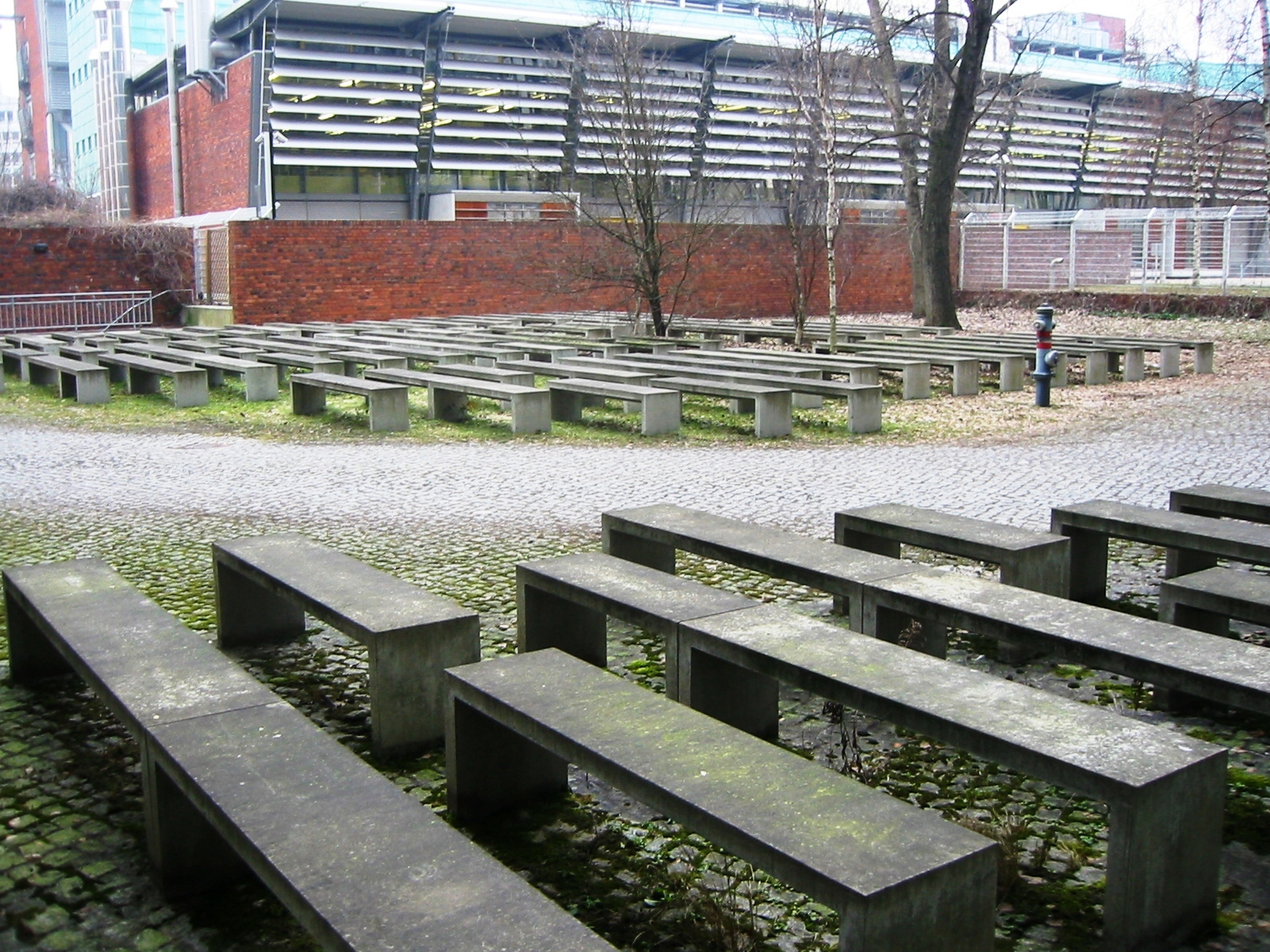 Memorial "Blatt" from Hecker, Ullman and Weizman in the courtyard of Barmer box office in Berlin-Kreuzberg (Germany)